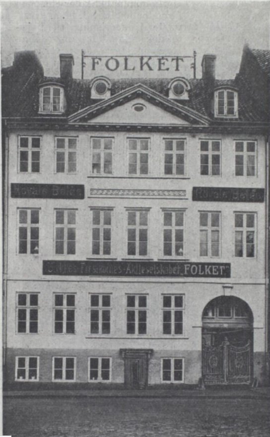 Assuranceselskabet Folkets Ejendom at Nytorv 17 in Copenhagen, Denmark